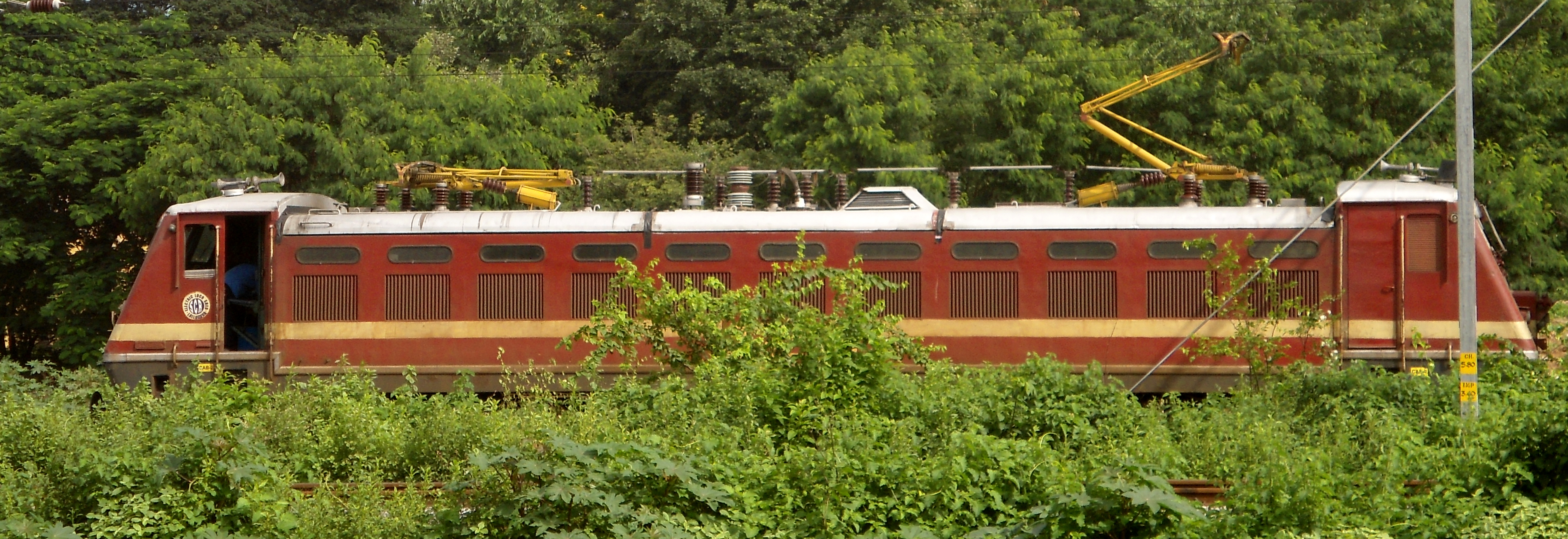 WAP-4 Locomotive at Secunderabad Railway station